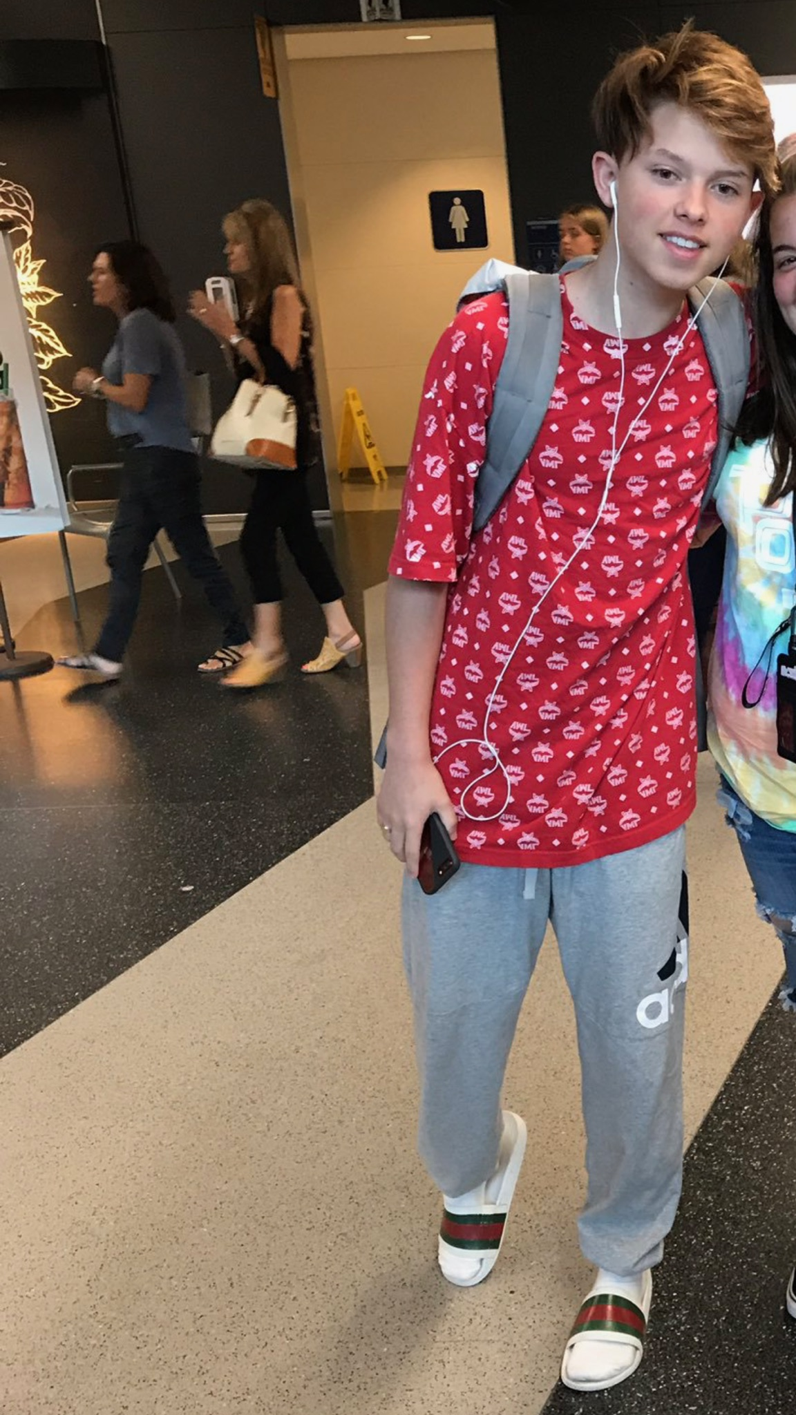 Jacob Sartorius in 2017 at Chicago Airport